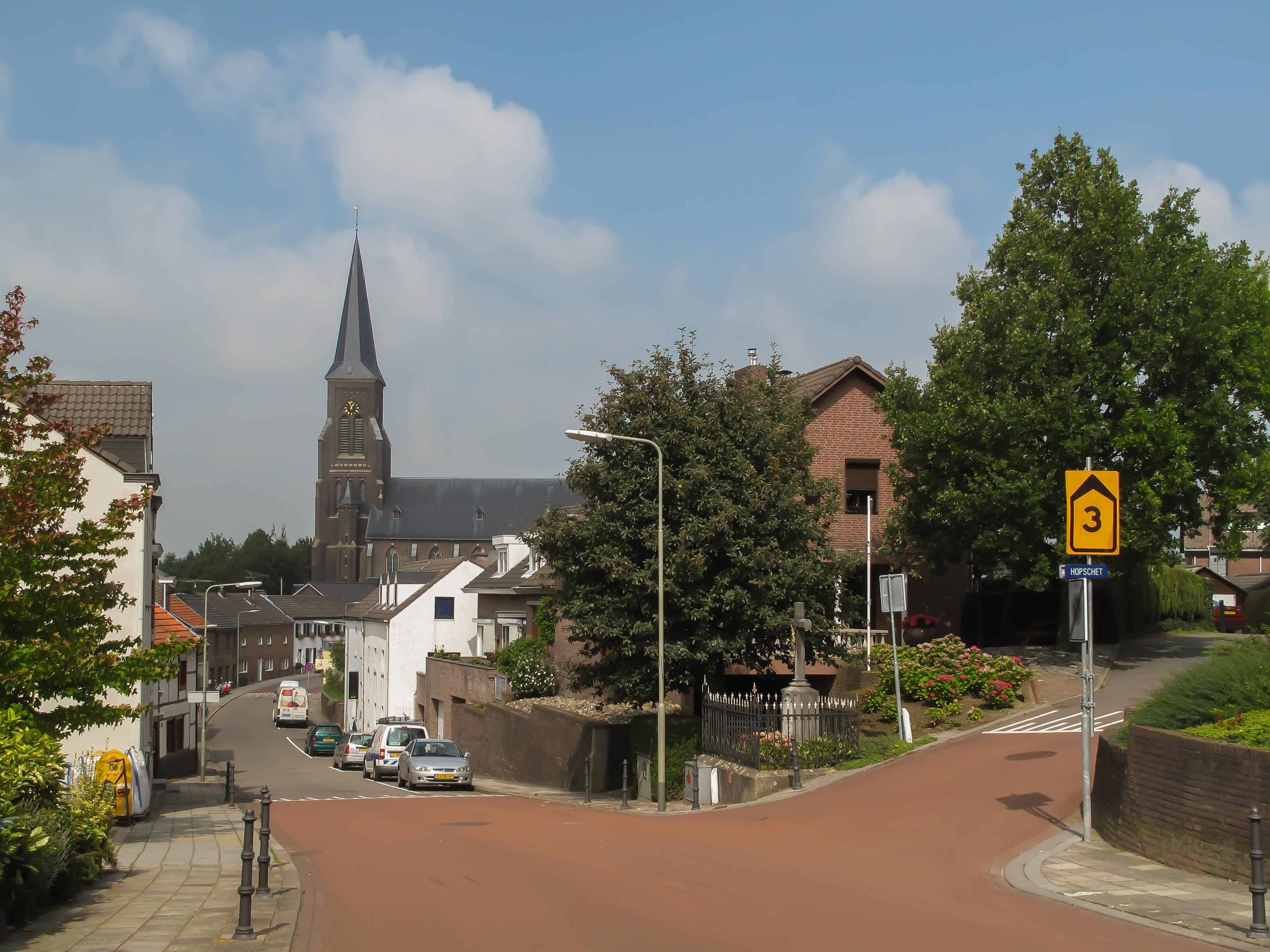 Vijlen, view to a street